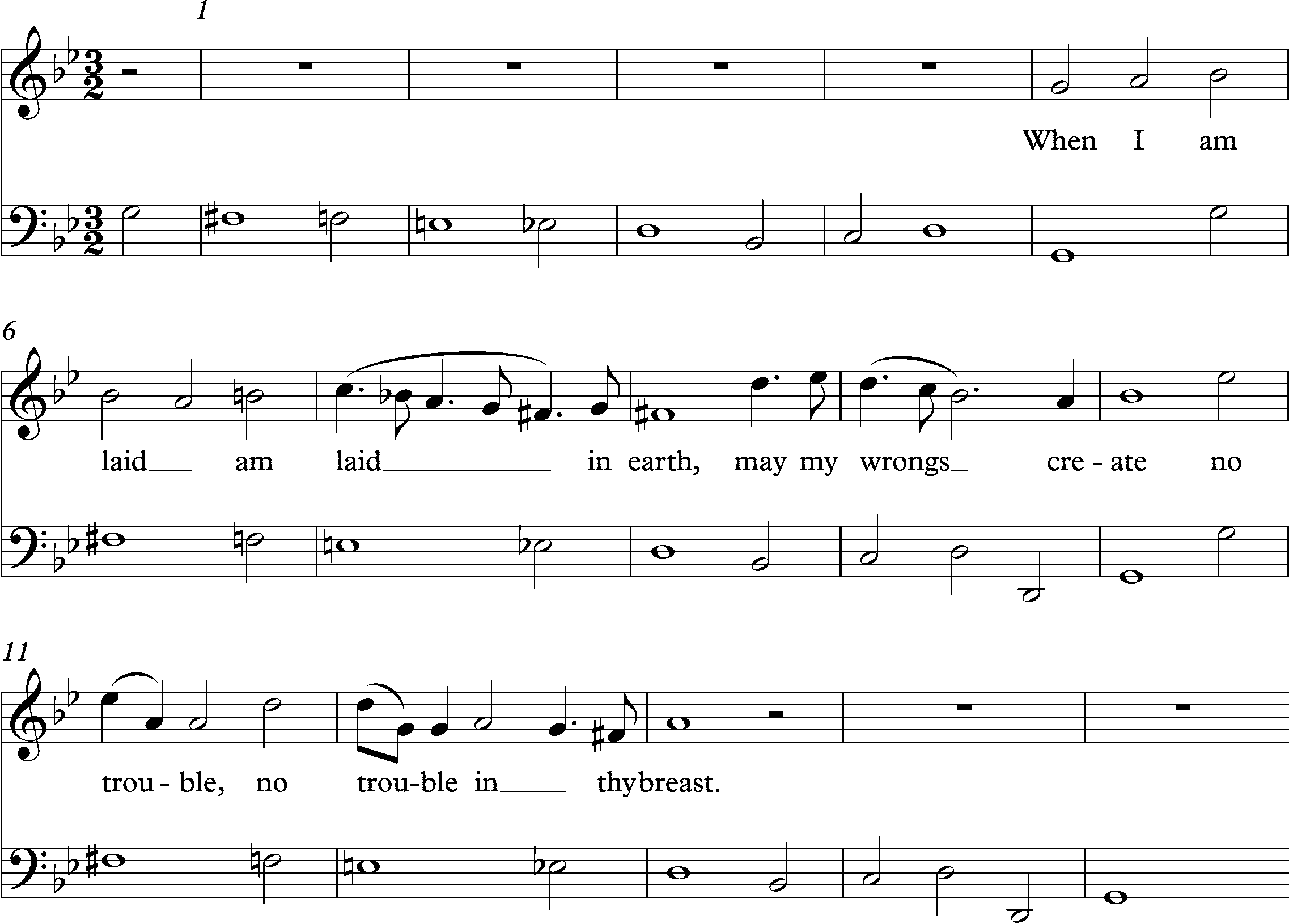 The opening bars of Dido's lament from the opera "Dido and Aeneas" by Henry Purcell